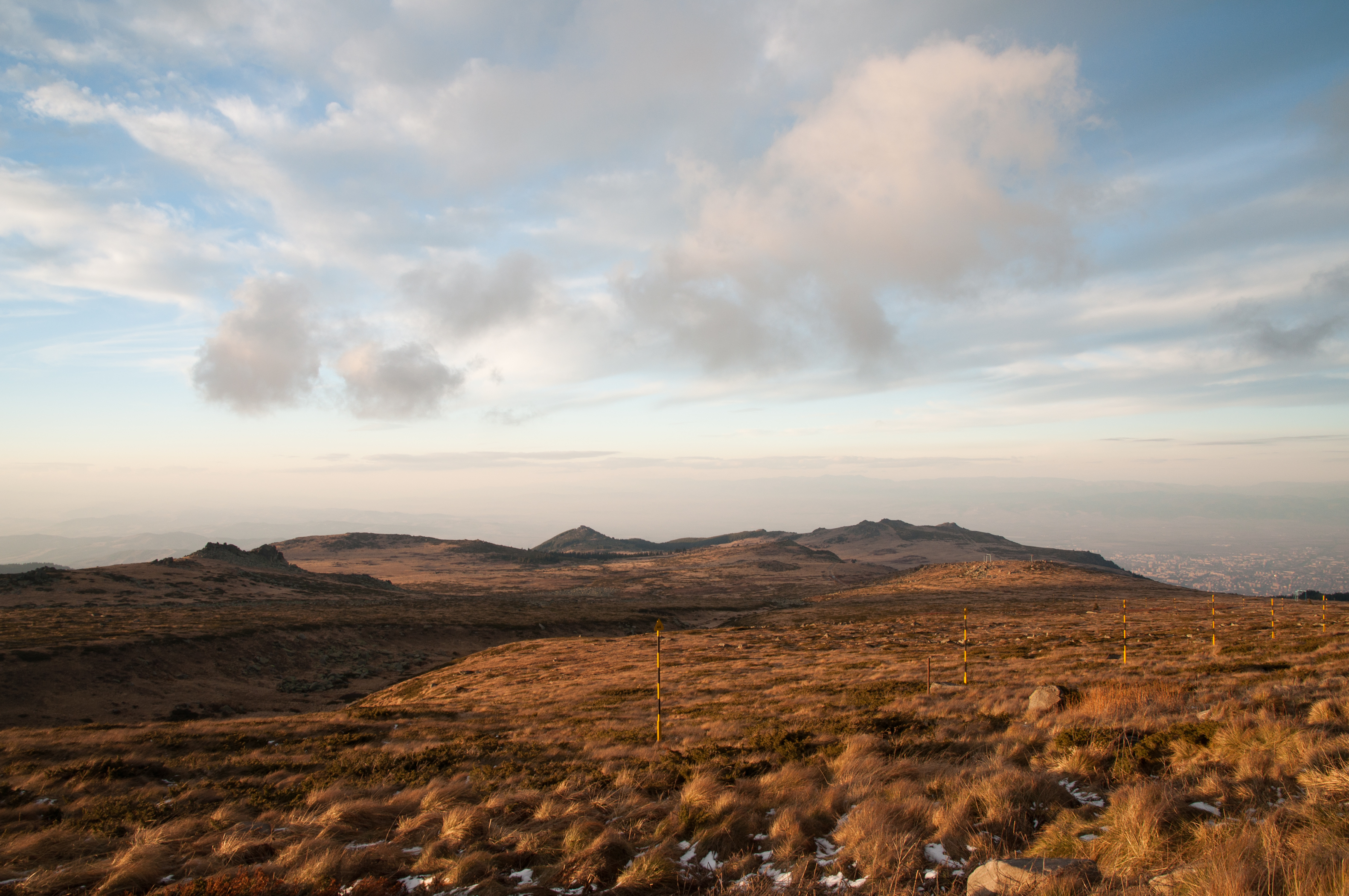 „Torfeno Branishte“ (Turf Reserve), the natural reserve on Vitosha Mountain, Bulgaria with the peak of „Ushite“ (1906 m) in the background and „Lavcheto peak“ (2053 m) in the closer left. The reserve spreads at average altitude of almost 2000 metres. The city of Sofia is visible in the far right background.